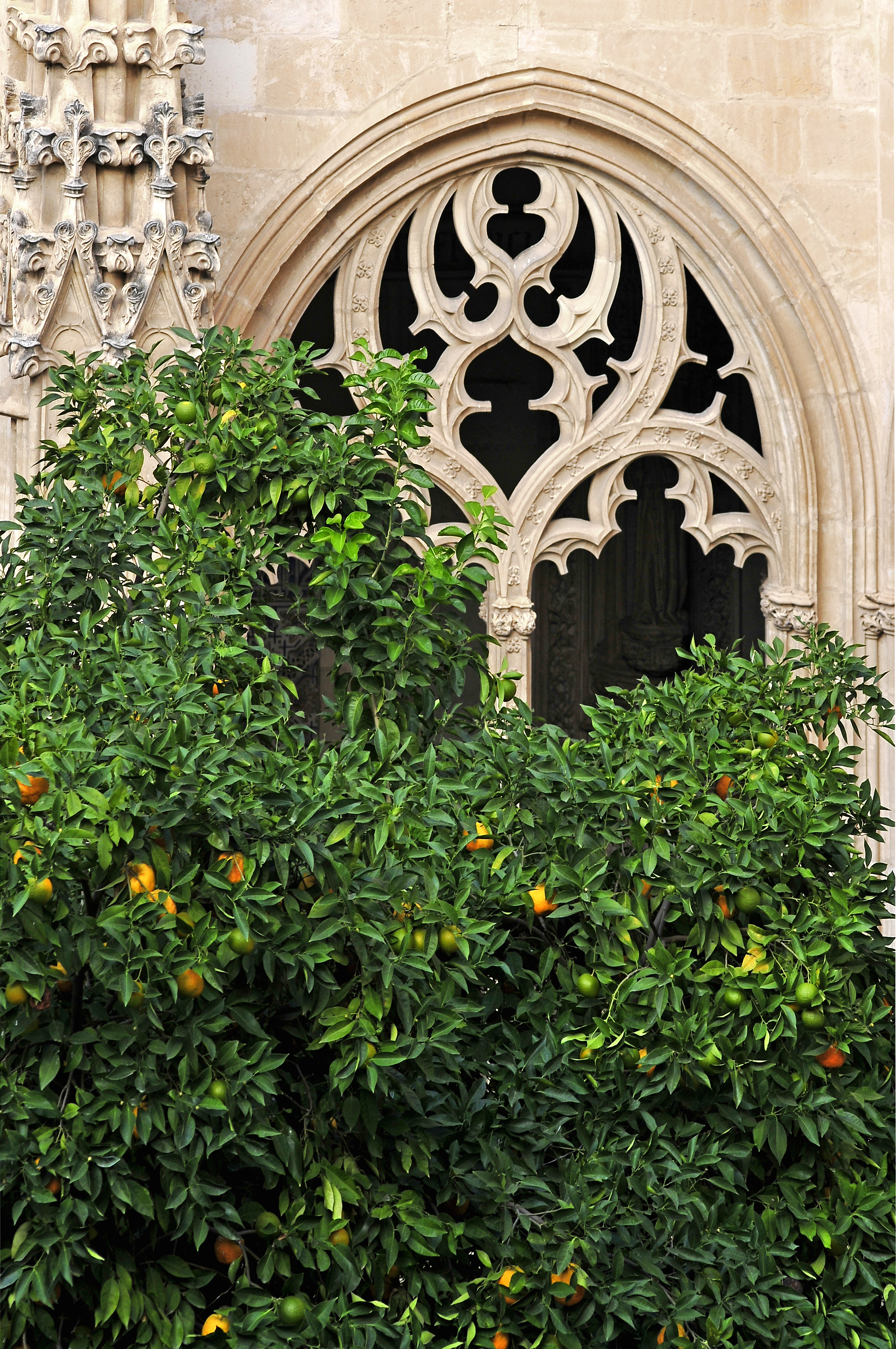 Arch of the lower cloister of the monastery of San Juan de los Reyes, and orange tree. Toledo, Toledo, Castile-La Mancha, Spain